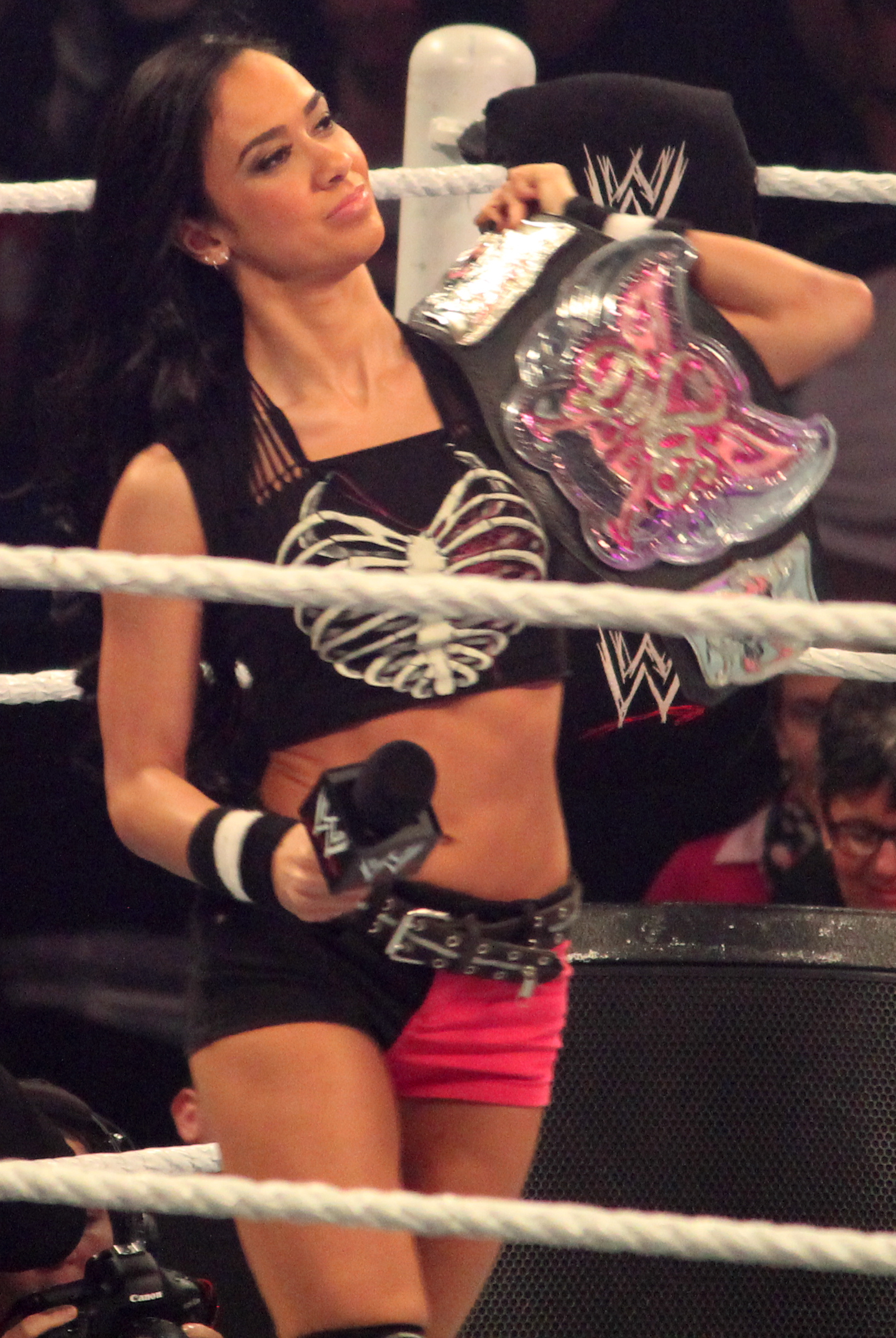 AJ Lee, the WWE Divas Champion, readies for a celebratory promo. (April 7, 2014) Originally taken by Megan Elice Meadows in New Orleans, LA, cropped for focus.